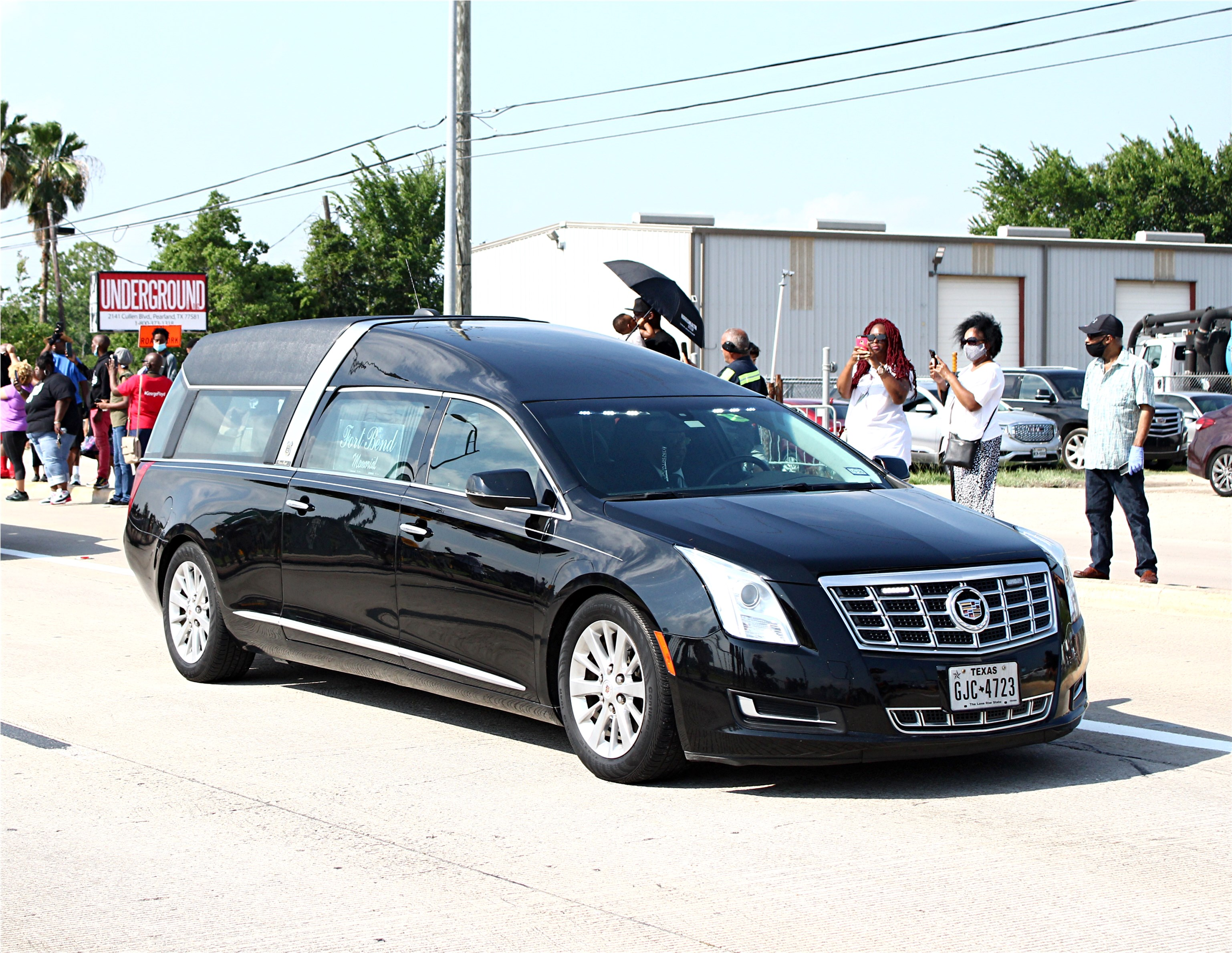 The Last Mile Of The Way.. Funeral procession with a horse-drawn carriage of George Floyd’s body down Cullen Blvd to the Houston Memorial Gardens Cemetery. Pearland, TX 6-9-20